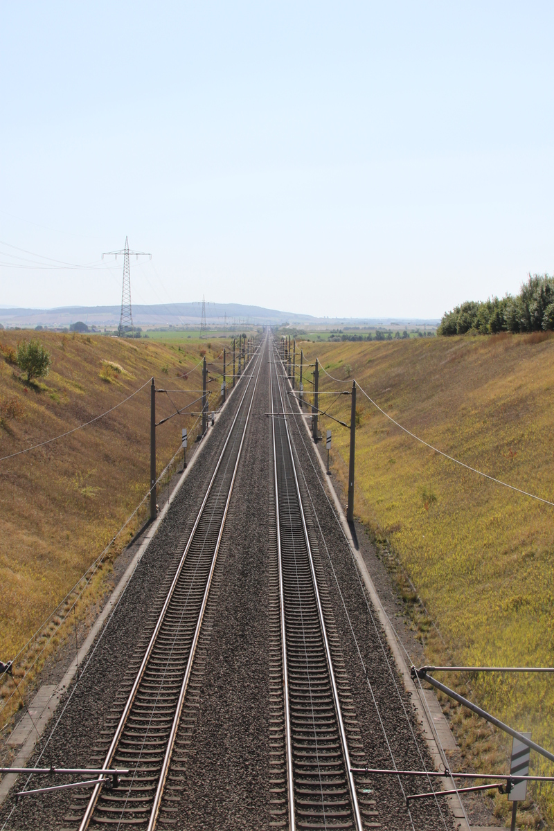 A view from kilometer 39.8 of the Hannover-Wurzburg high-speed railway line.